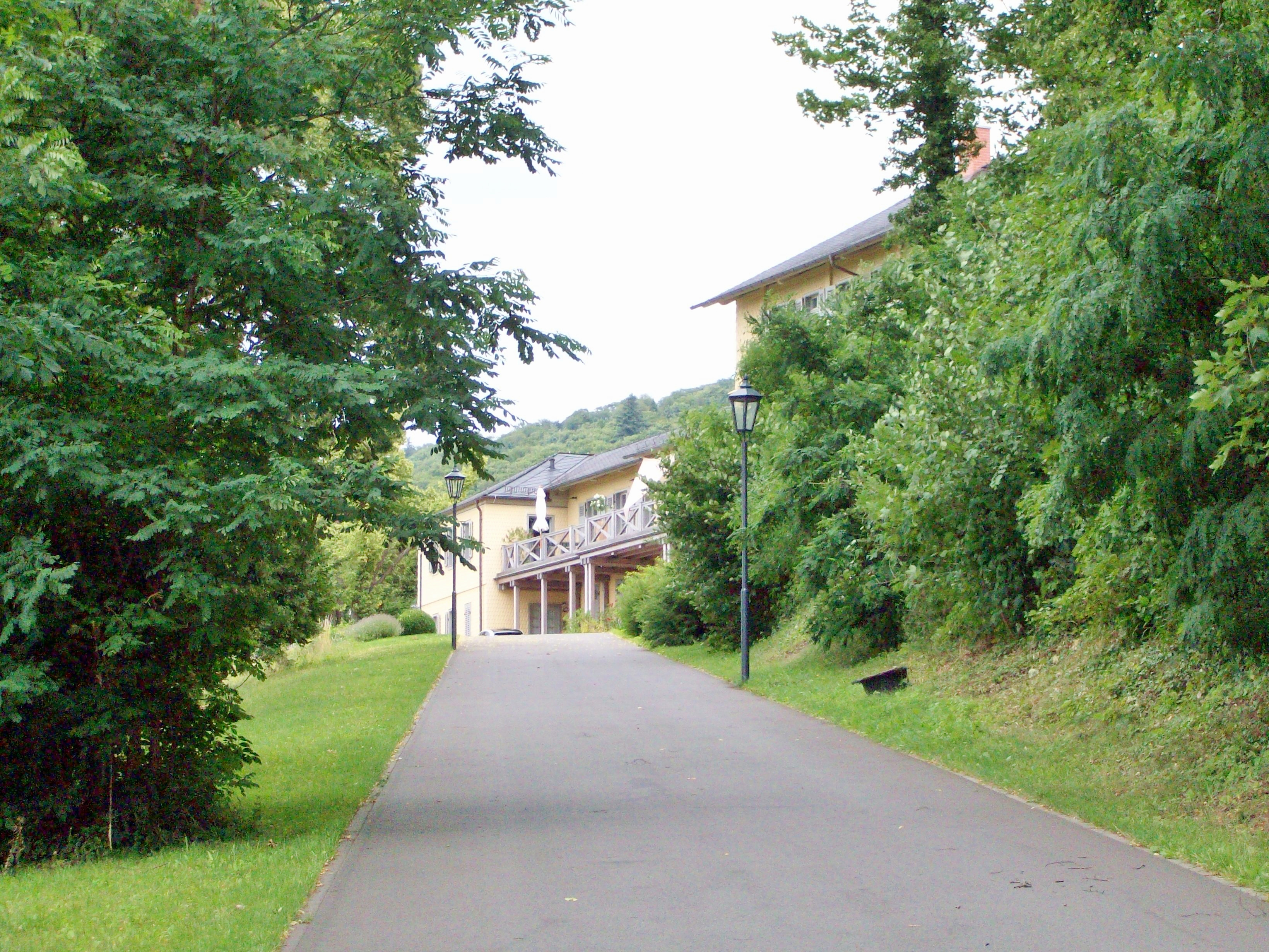 The drive-up to the castle "Seeheimer Schloss" (it's private ground)